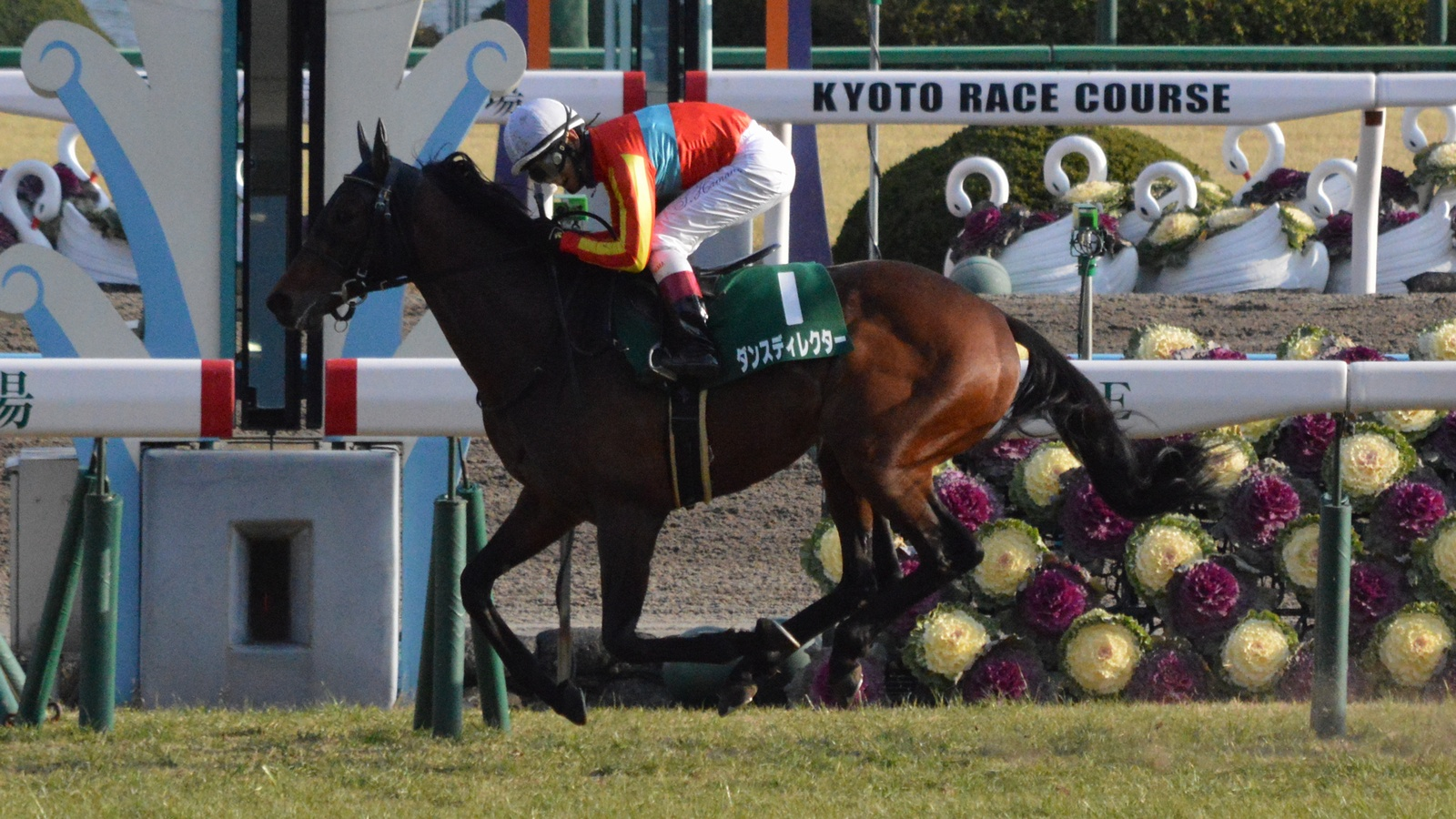 Japanese race horse Dance Director at Kyoto racecourse. Kyoto (JPN) 31 Jan 2016Silk Road Stakes (Grade 3 Handicap) (4yo+) (Turf) 6f Good RankHorse NameOddsAgeWgtJockeyTrainer1stDance Director (JPN)34/10H59-0Suguru HamanakaKazuhiro Sasada2ndLaurel Veloce (JPN)109/10H68-11Yuji NakaiYuzo IidaOthers are omitted. (16 horses entered in a race.)